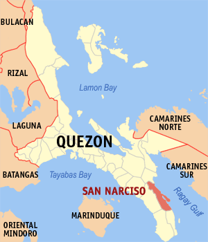 Map of Quezon showing the location of San Narcisco